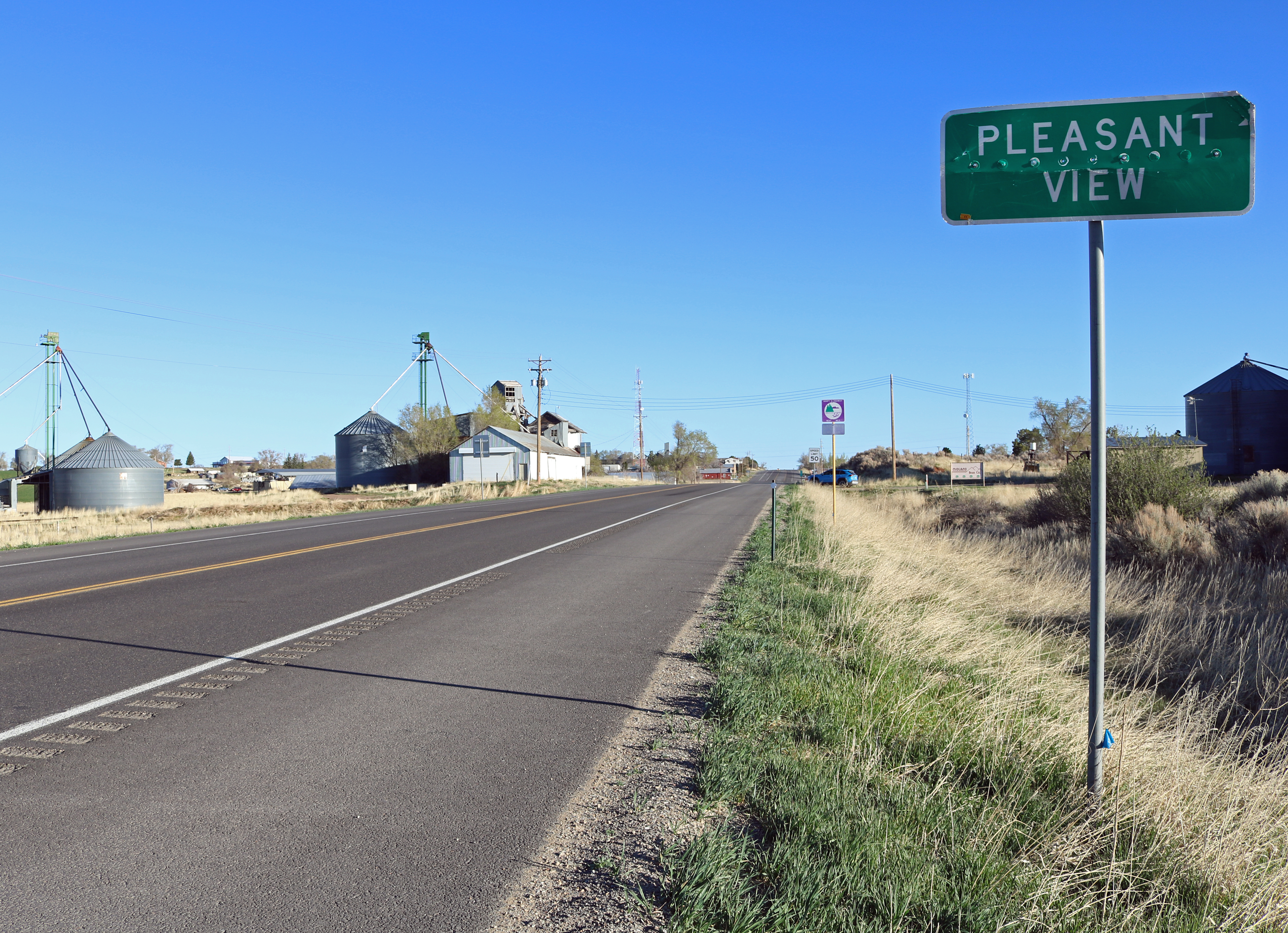 Pleasant View, Colorado in Montezuma County. The view is to the northwest along U.S. Highway 491.